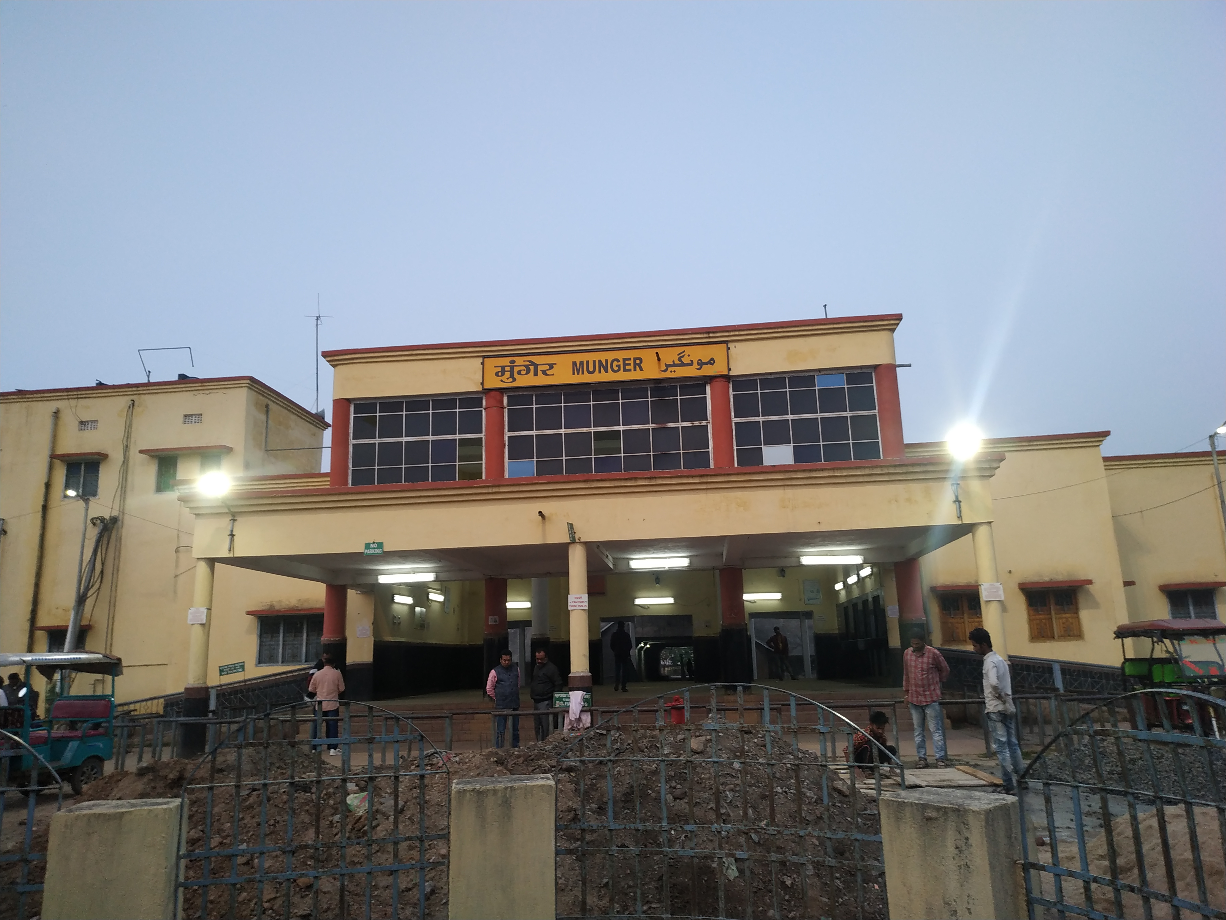 Munger Railway station Building